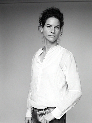 German actress Bibiana Beglau